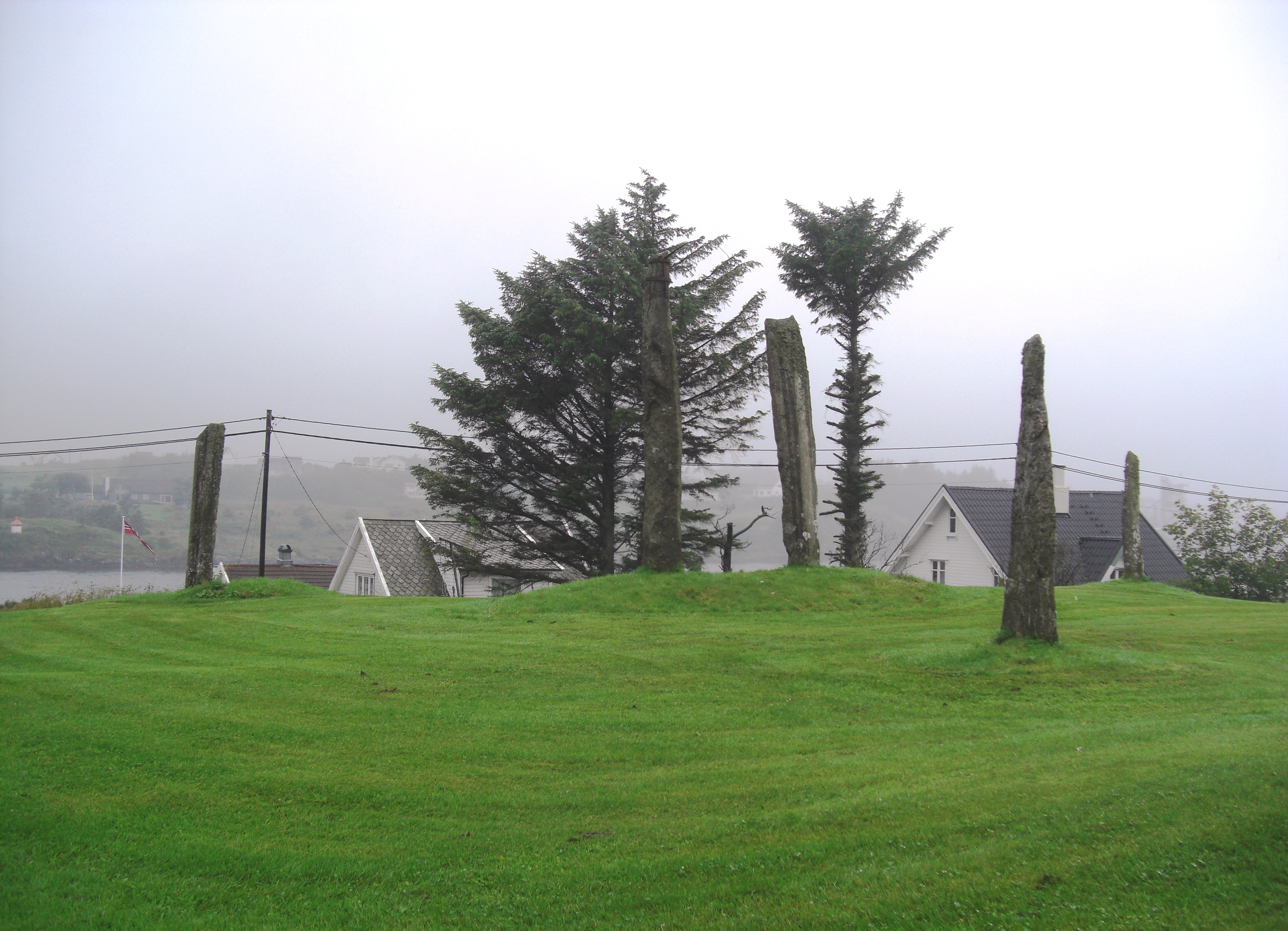 De fem dårlige jomfruer